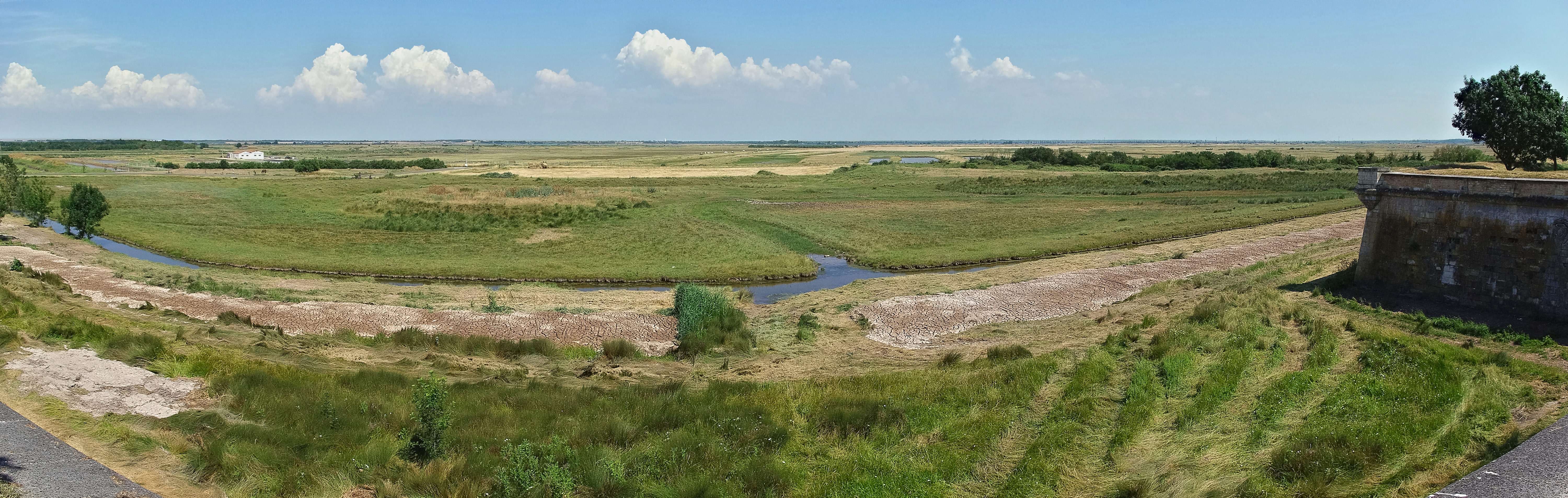 The marshes of Brouage seen from the ramparts, looking East. Hiers-Brouage, Charente-Maritime, France.